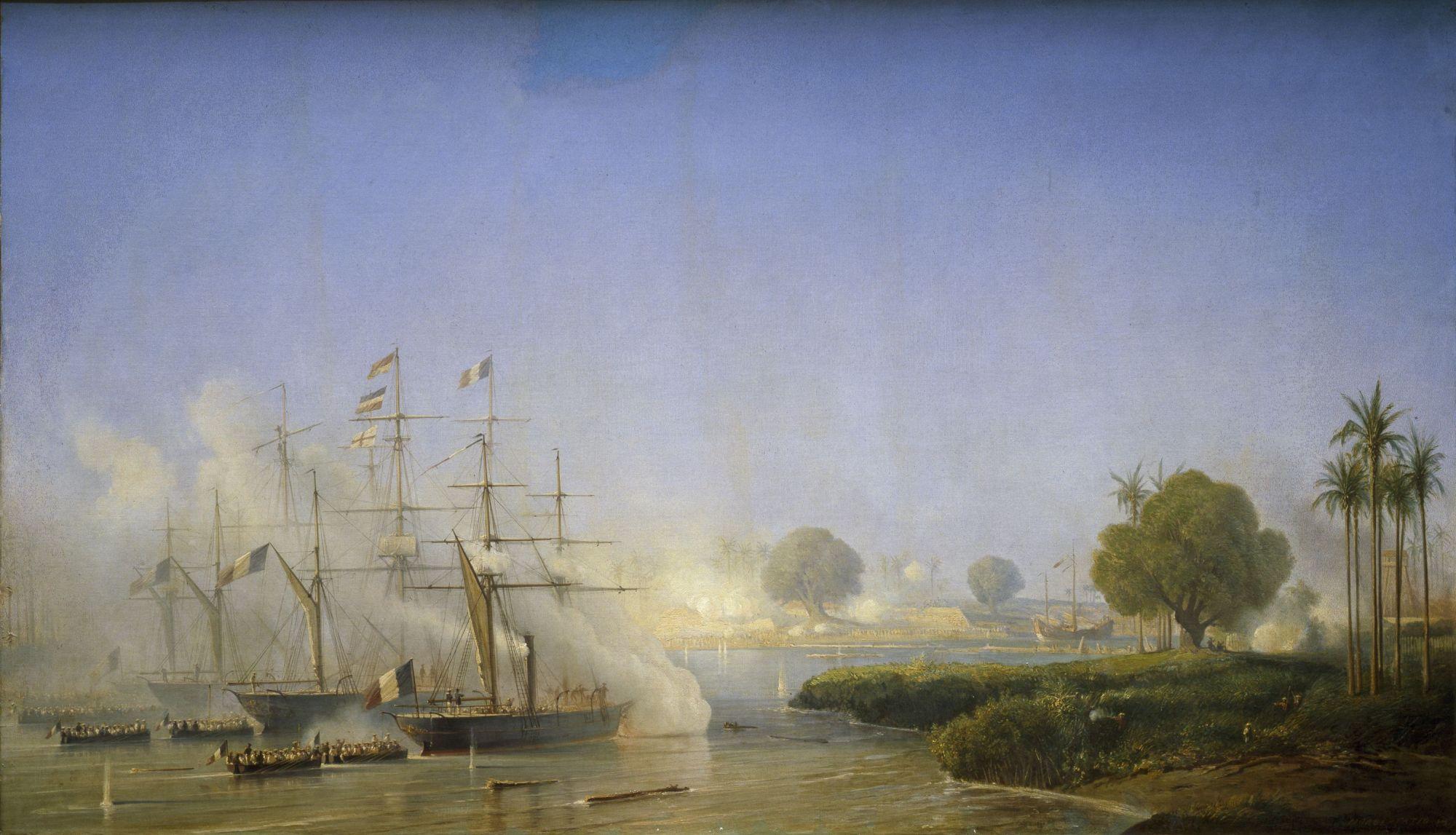 Capture of Saigon by France, 18th February 1859.